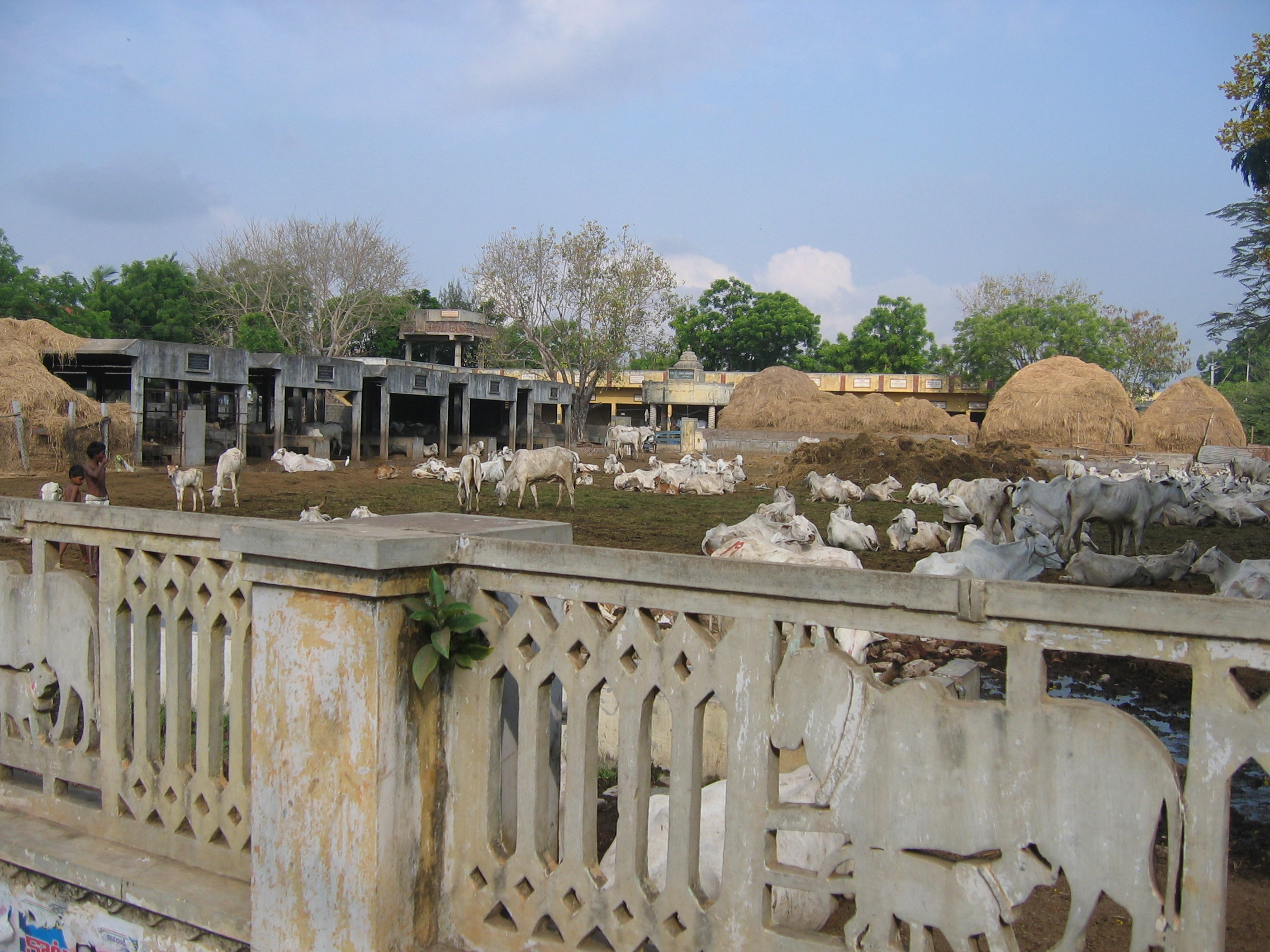 Picture of a Cow Shelter (called GowSala) at Guntur City in India. Source: Self made.